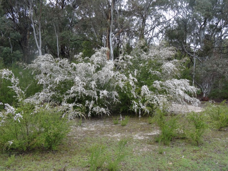 Leptospermum brevipes near Paddys River in the Tidbinbilla Nature Reserve